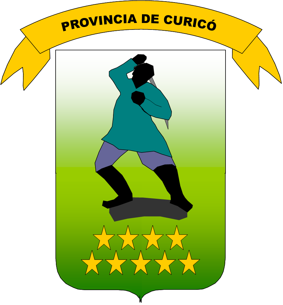 Coat of arns of the Curico province, Chile